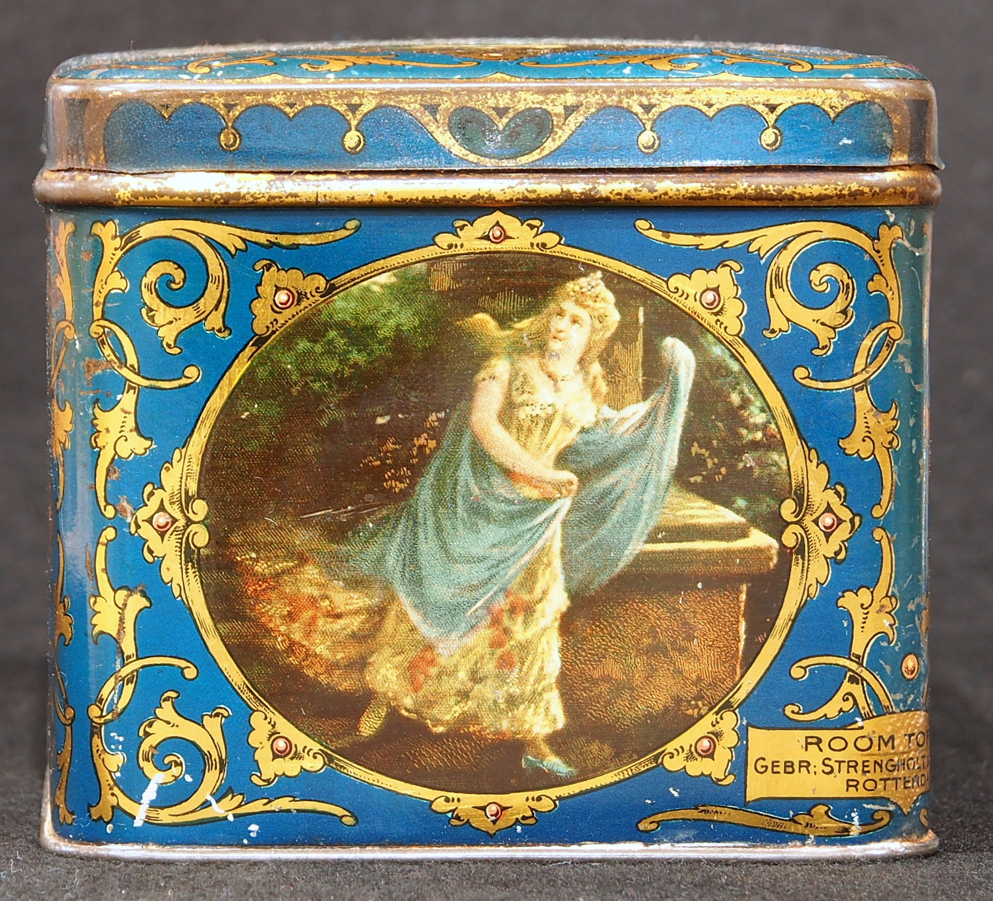 Very old packaging of a Dutch product that is not produced and not sold any more. Photographed at a collector of Droste. For info see tincollectors.nl or